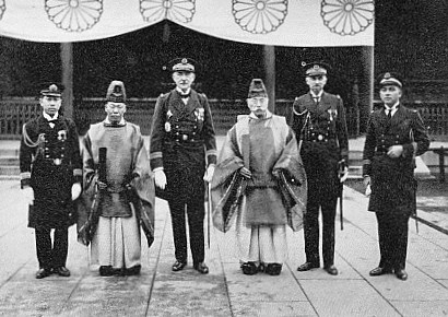 French Navy personnel visit to the Yasukuni Shrine in 1930s